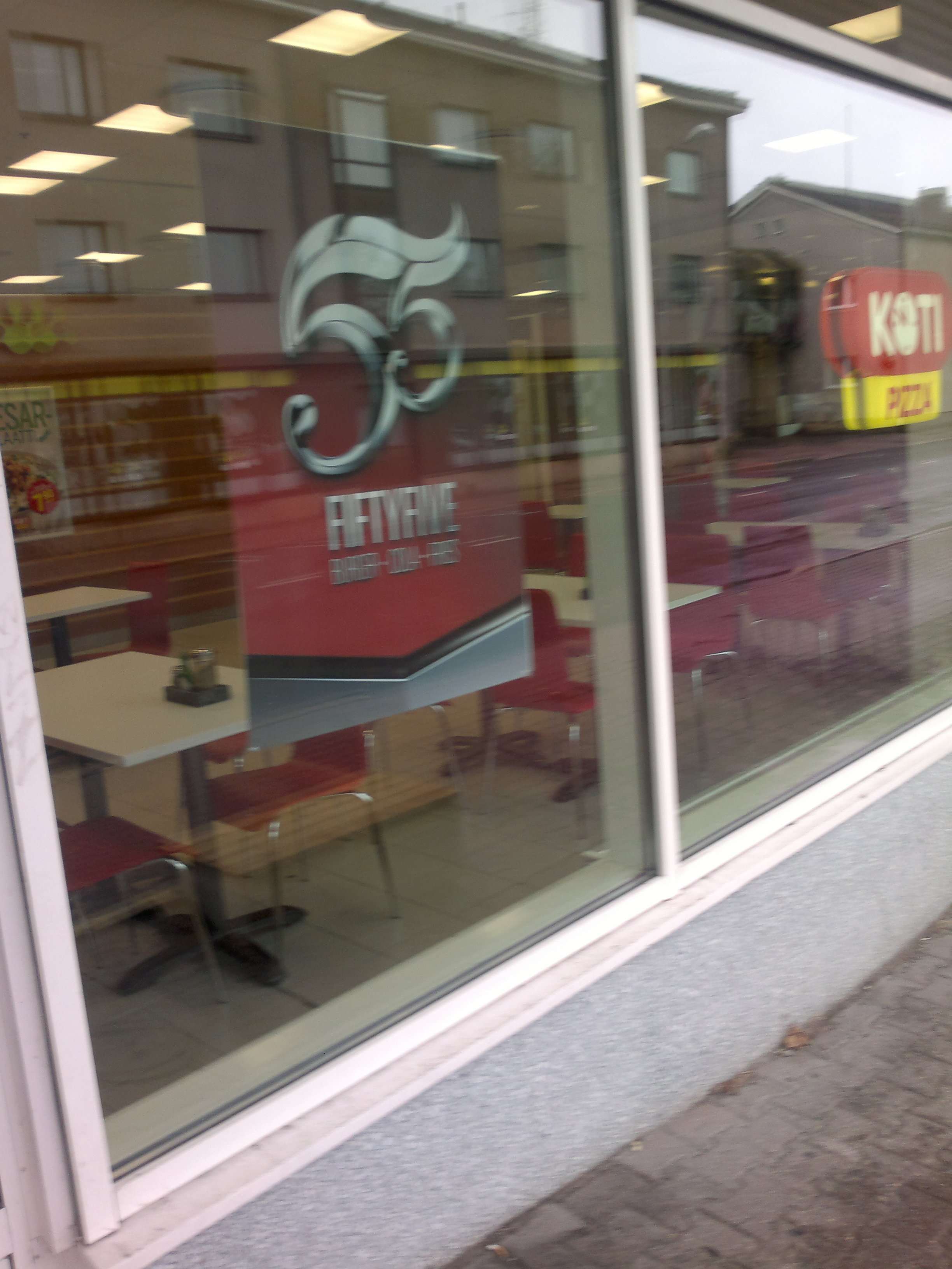 55 Burger, Cola, Fries restaurant in Seinäjoki, Finland